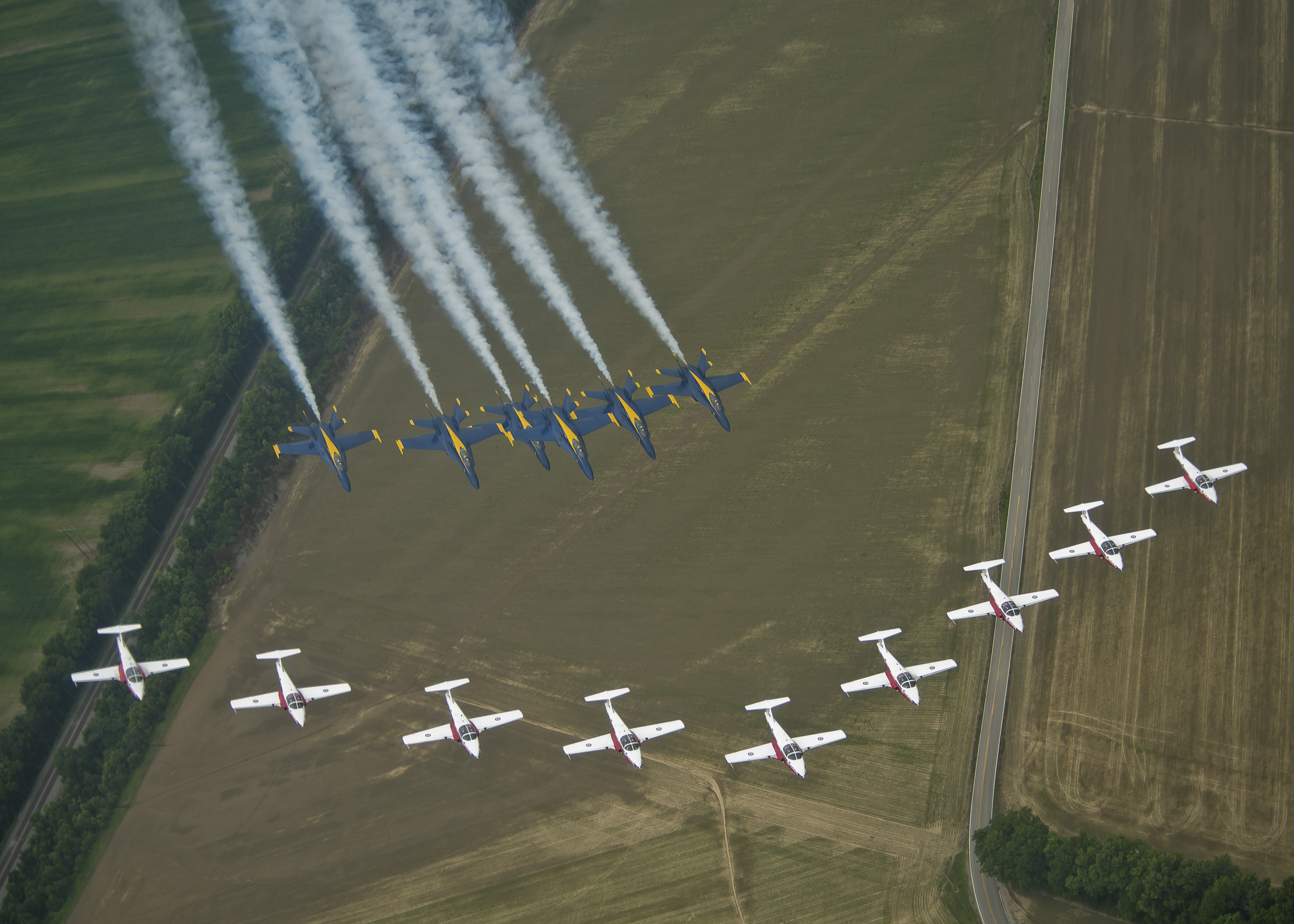 The U.S. Navy Flight Demonstration Squadron, the Blue Angels, join their signature Delta formation with the Canadian Air Demonstration Squadron, the Snowbirds, for a photo shoot over Evansville, Indiana (USA). The Blue Angels were scheduled to perform at 68 demonstrations at 35 locations across the U.S. in 2015.